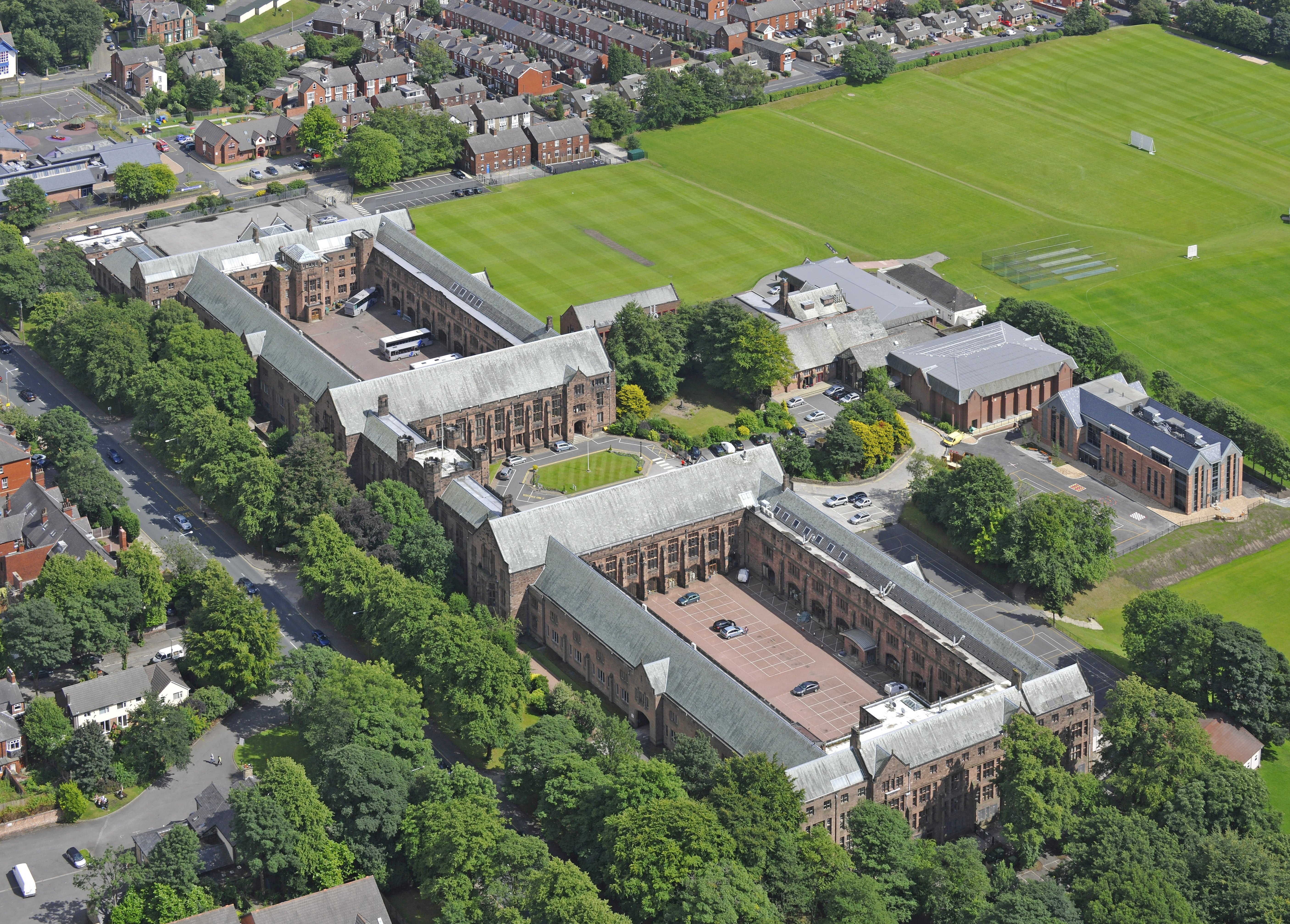 Aerial photograph of Bolton School from the north west